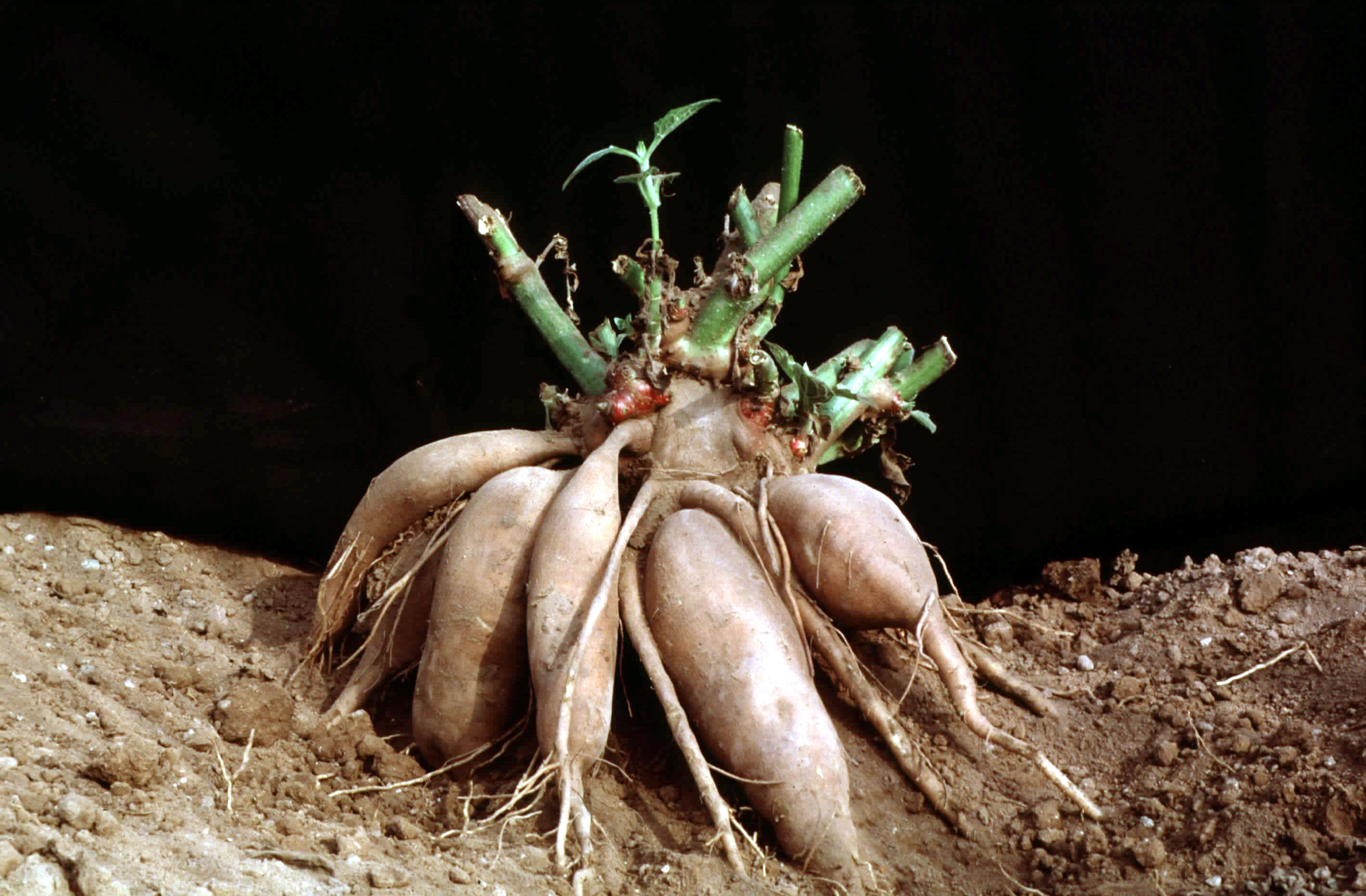 Yacon rootstock with storage roots. Locality: Peru